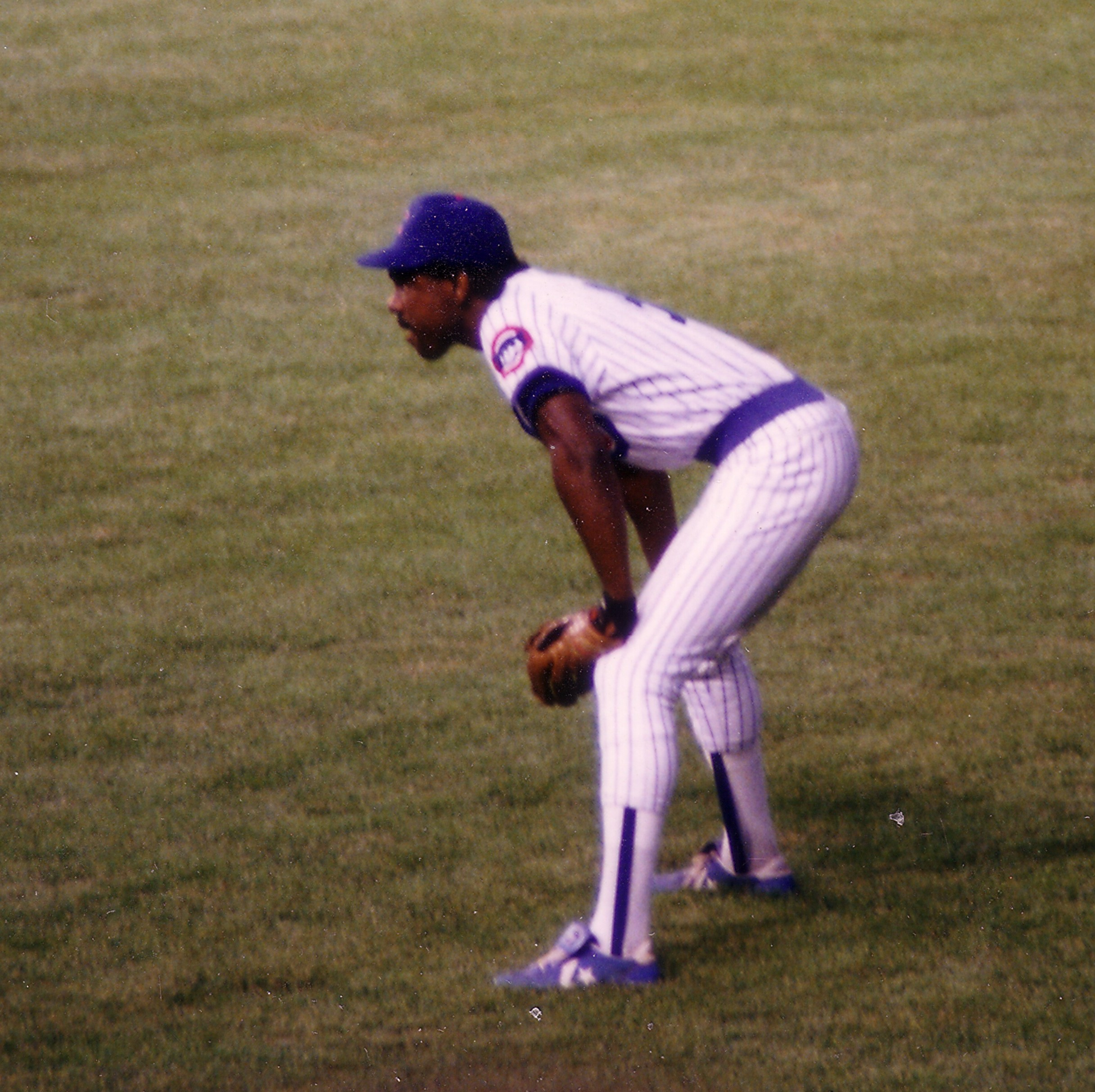 Taken August 1988 at Wrigley Field